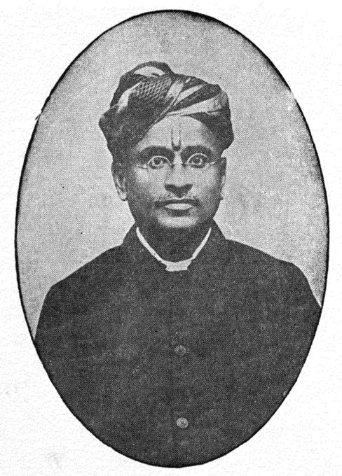 Photo of Hari Narayn Apte